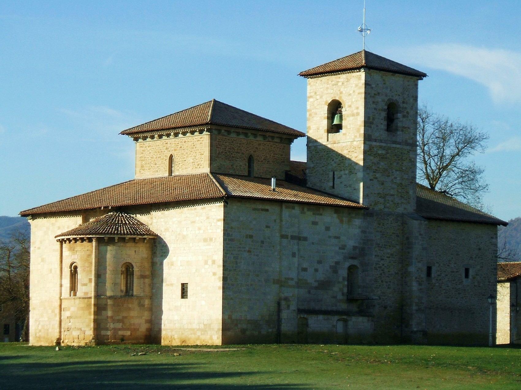 Basílica de San Prudencio de Armentia, Vitoria-Gasteiz (País Vasco, España)